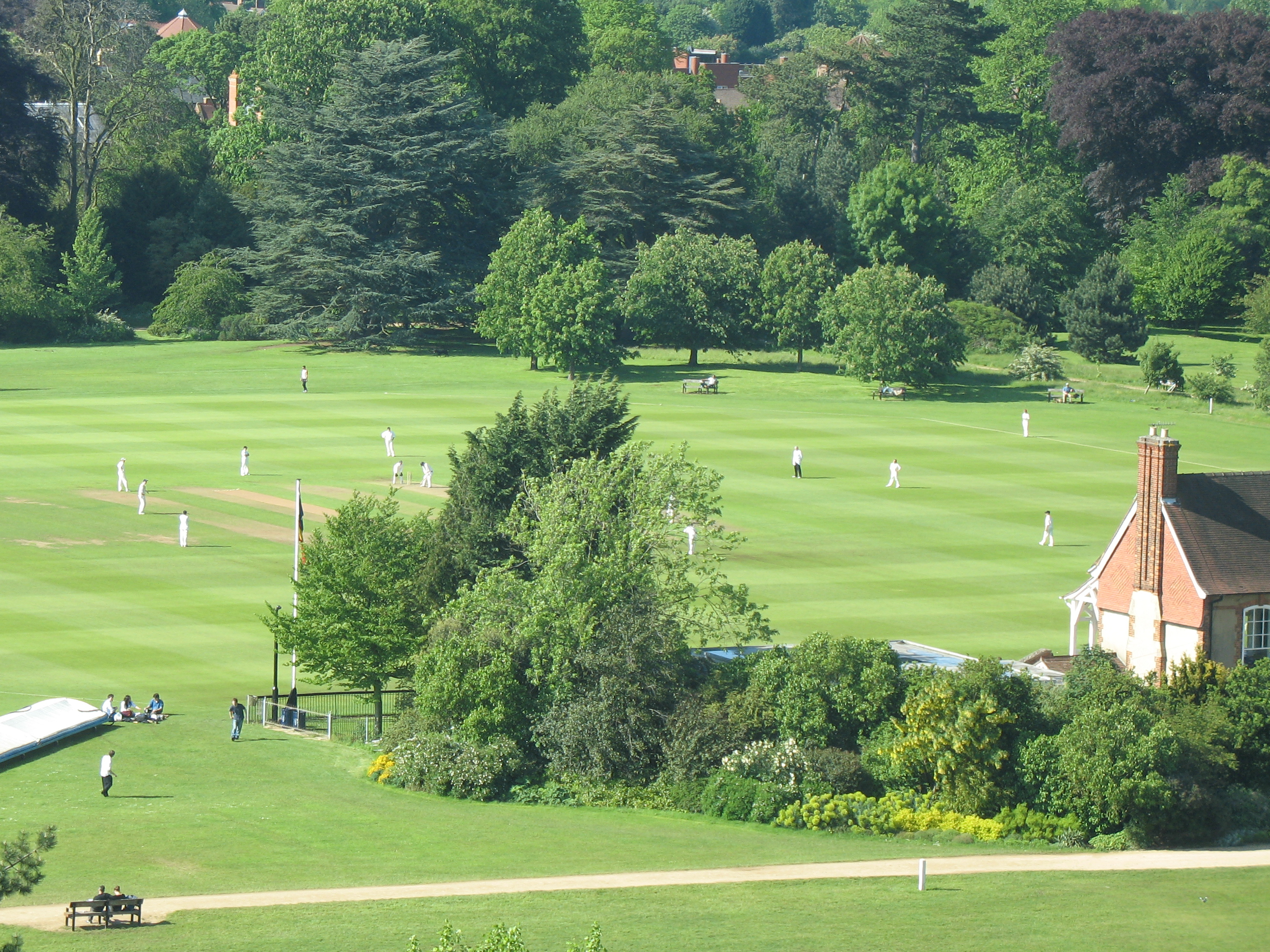 Cricket at University Parks, Oxford, picture taken from the now demolished Han Krebs Tower.